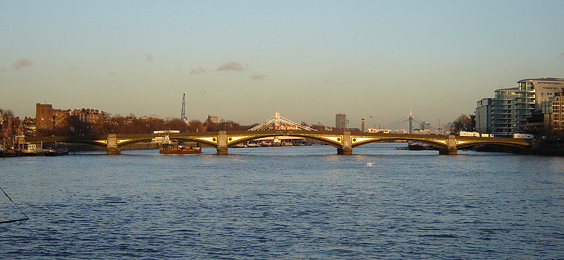 Battersea Bridge, River Thames, London, looking downstream from the north bank. Albert Bridge in background.